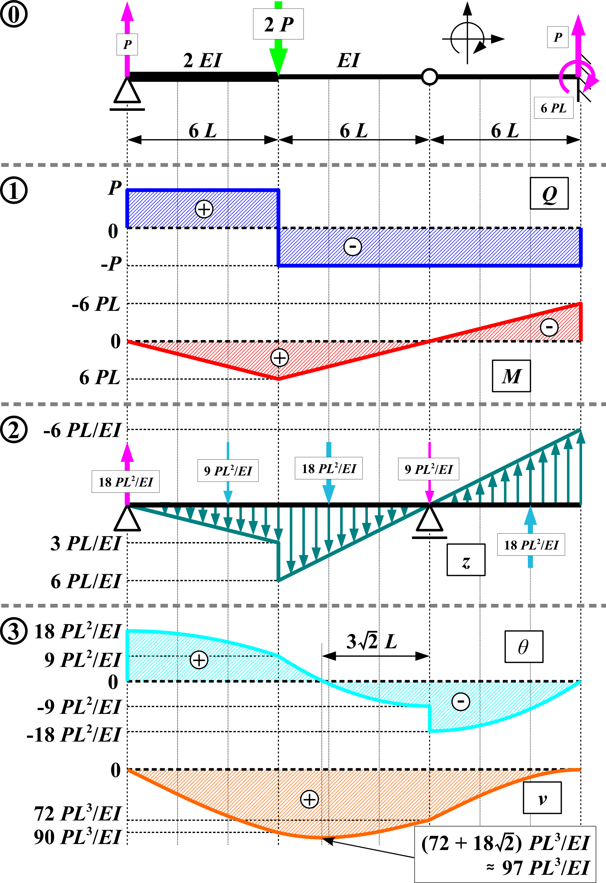 Elastic load method - the method to bending of beam with Mohr's theory.